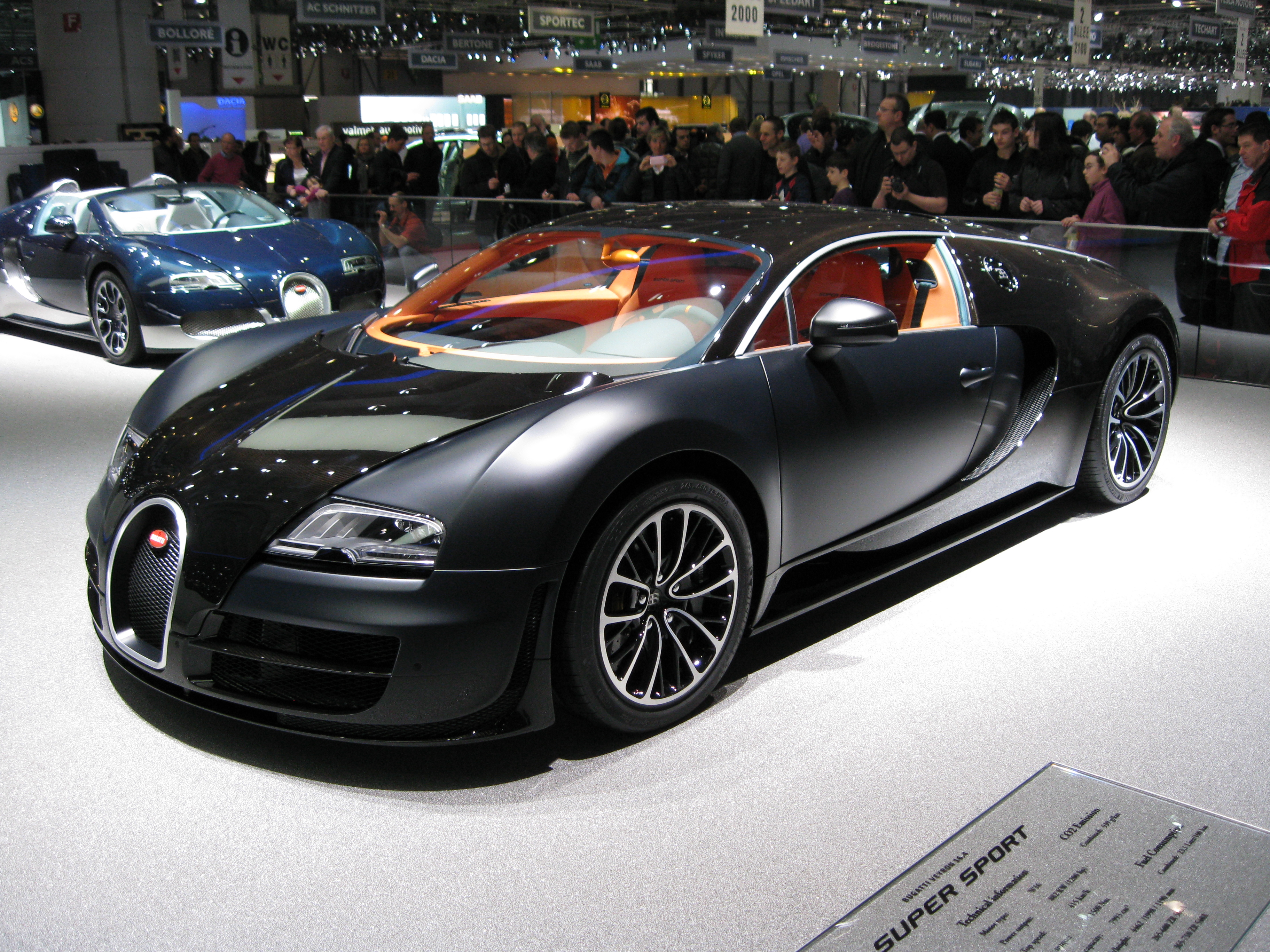 Geneva Motor Show 2011